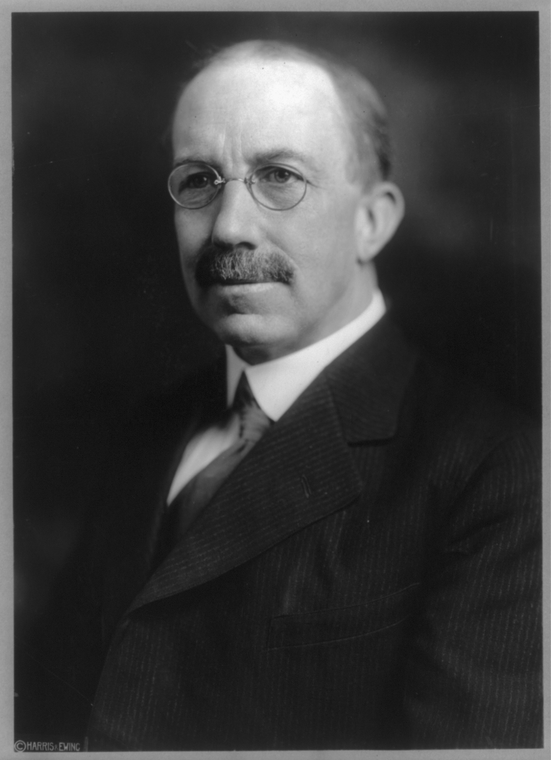 Wayne Bidwell Wheeler, half-length portrait, facing left